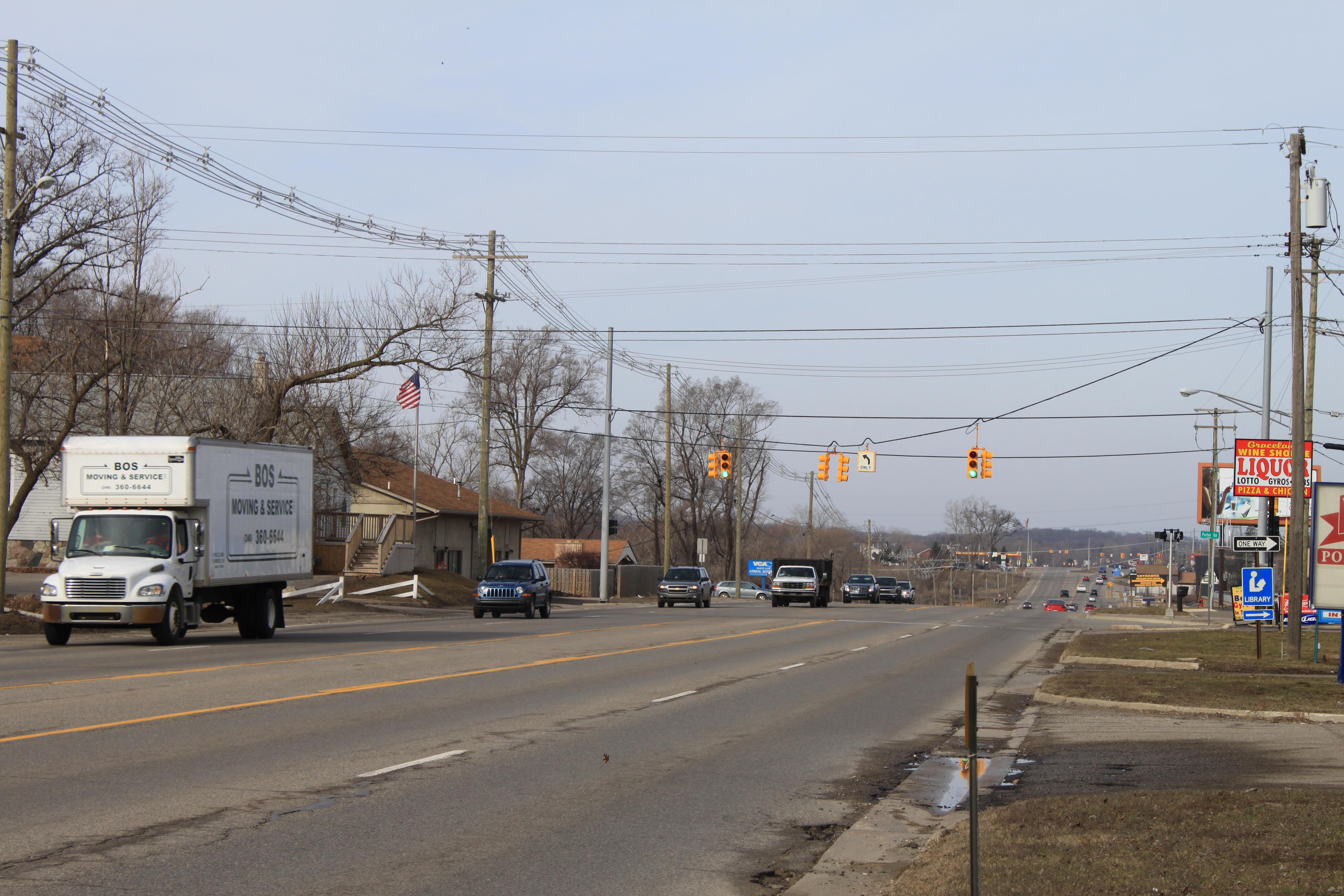 White Lake Township, Highland Road at Porter Road, facing west, Michigan.